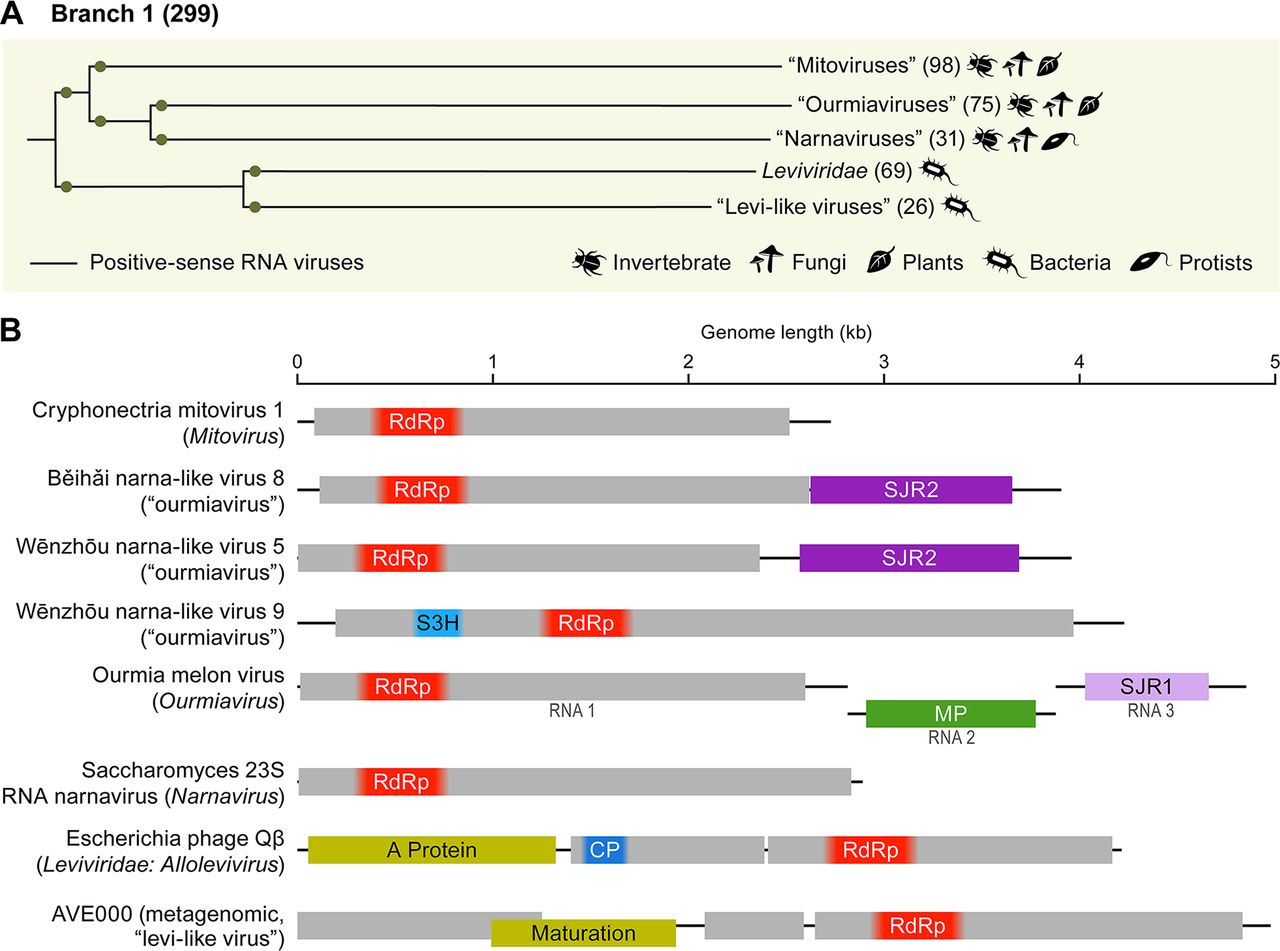 Branch 1 of the RNA virus RNA-dependent RNA polymerases (RdRps): leviviruses and their relatives. (A) Phylogenetic tree of the virus RdRps showing ICTV-accepted virus taxa and other major groups of viruses. Approximate numbers of distinct virus RdRps present in each branch are shown in parentheses. Symbols to the right of the parentheses summarize the presumed virus host spectrum of a lineage. Green dots represent well-supported (≥0.7) branches. (B) Genome maps of a representative set of branch 1 viruses (drawn to scale) showing color-coded major conserved domains. Where a conserved domain comprises only a part of the larger protein, the rest of this protein is shown in light gray. The locations of such domains are approximated (indicated by fuzzy boundaries). CP, capsid protein; MP, movement protein; S3H, superfamily 3 helicase; SJR1 and SJR2, single jelly-roll capsid proteins of type 1 and type 2 (see Fig. 7).